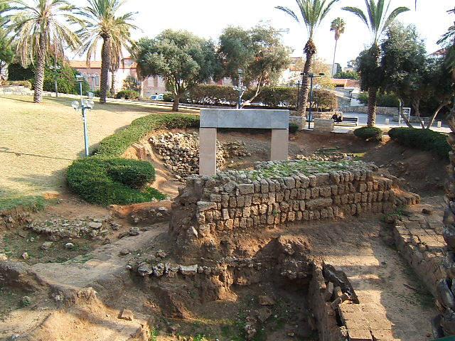 The remnant of the Yaffo wall gate from the 13th century BC